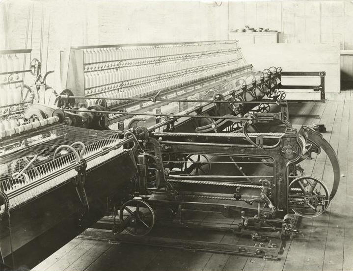 Mason Mule Spinning machine, ca.1898, built by the Mason Machine Works, Taunton, Massachusetts